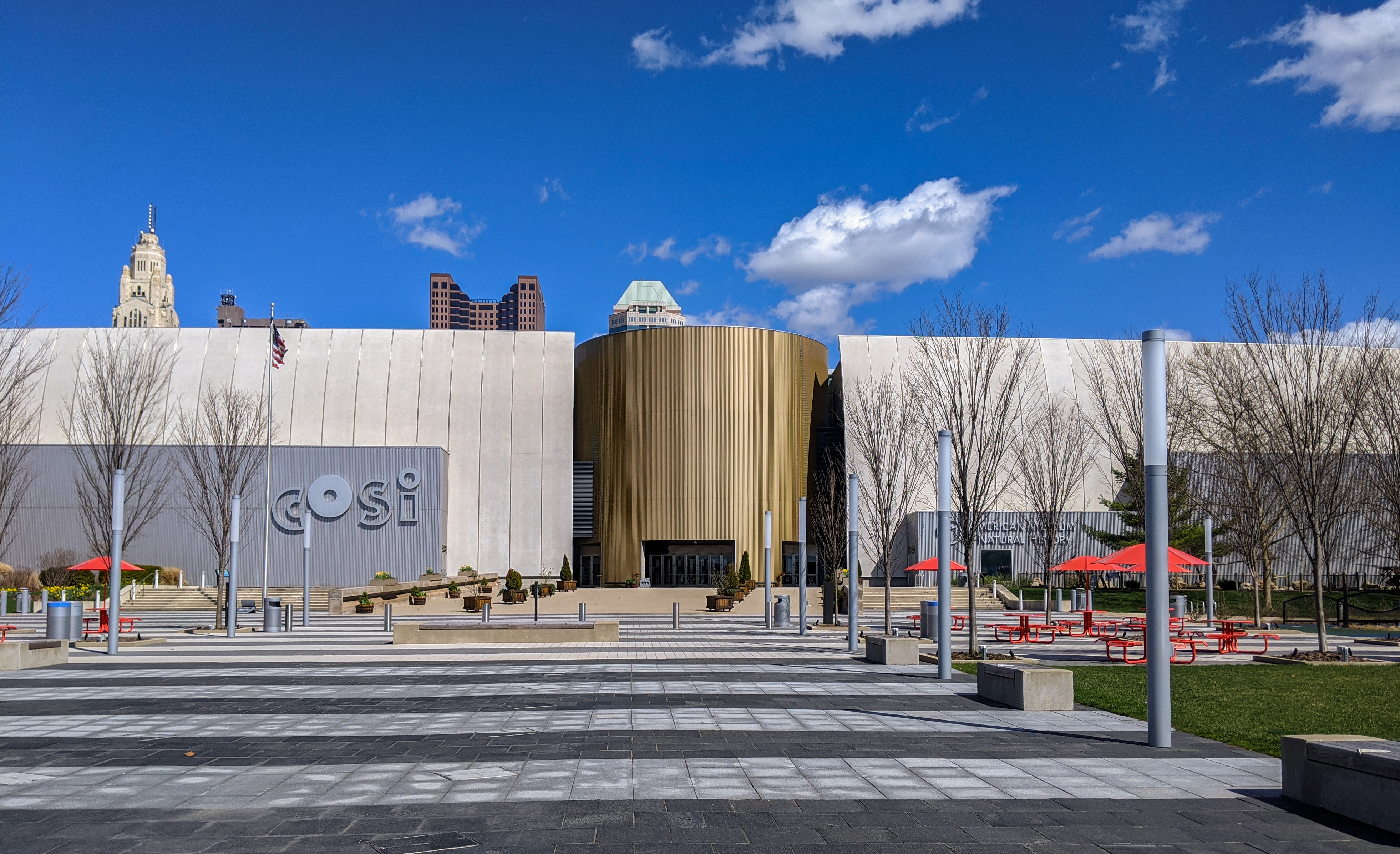 COSI in Columbus, Ohio.